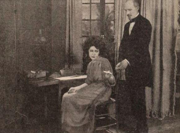 Still from the American film Camille (1921) with Alla Nazimova and William Orlamond (1867 – 1957), on page 40 of the September 17, 1921 Exhibitors Herald.